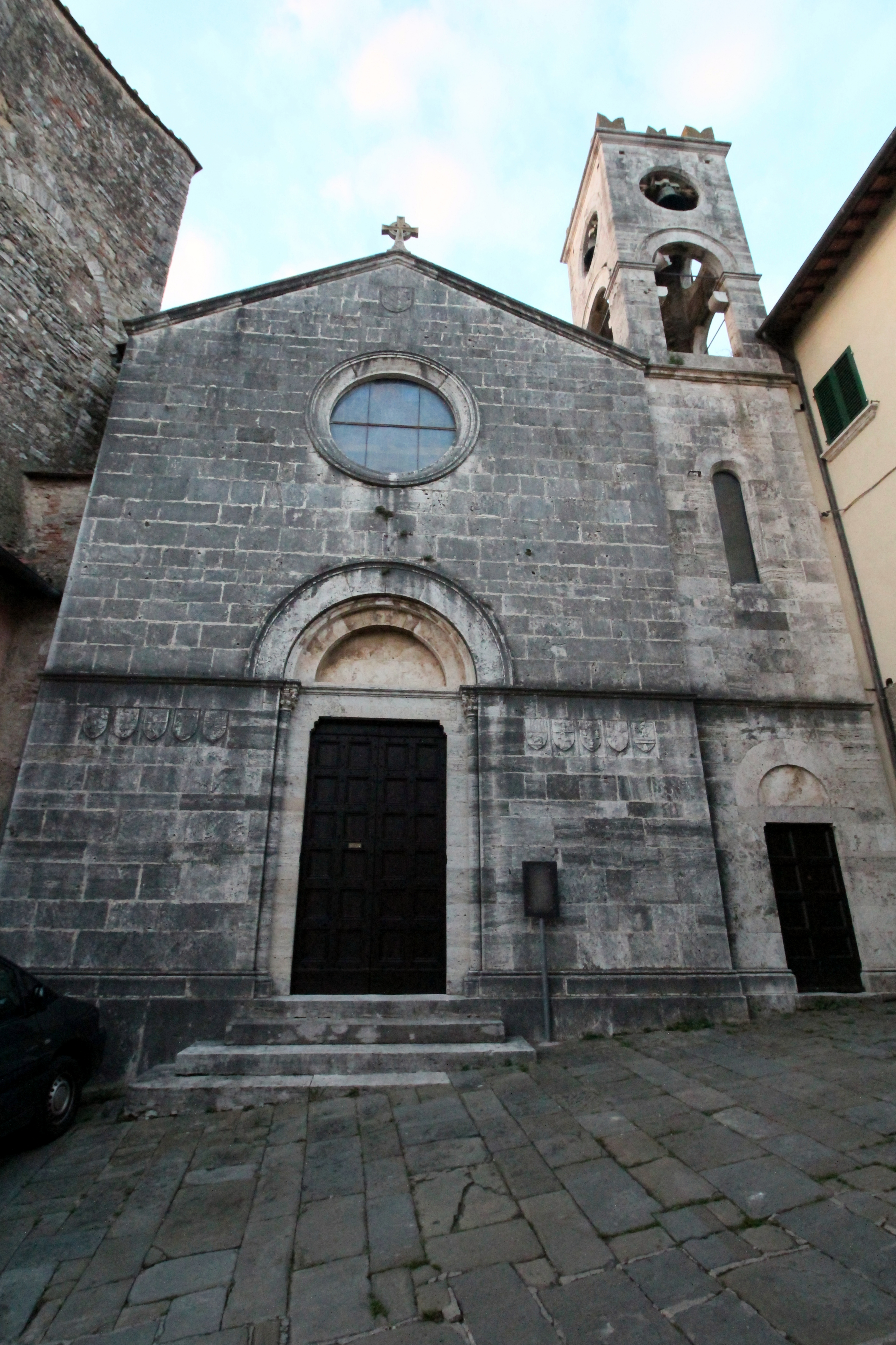 Church San Giovanni Evangelista, in Armaiolo, hamlet of Rapolano Terme, Province of Siena, Tuscany, Italy